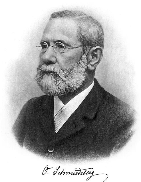 Image of the German pharmacologist Oswald Schmiedeberg.